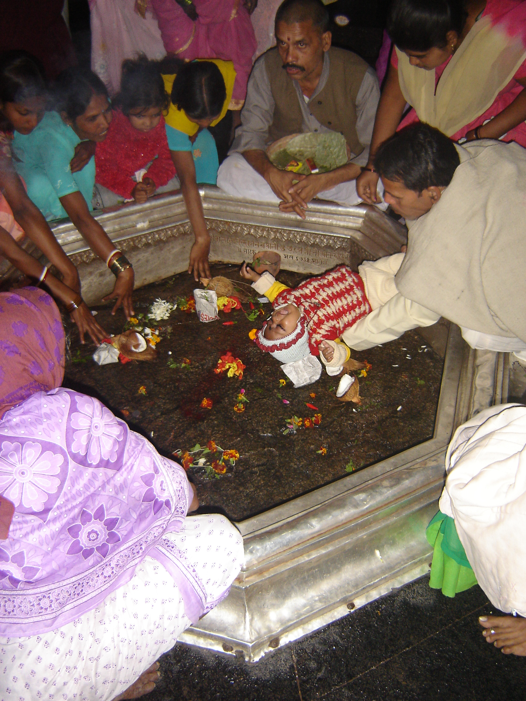 Buddha's footstep (or alternatively Vishnu's footstep) at the Vishnupada Temple, Gaya, Bihar, India.